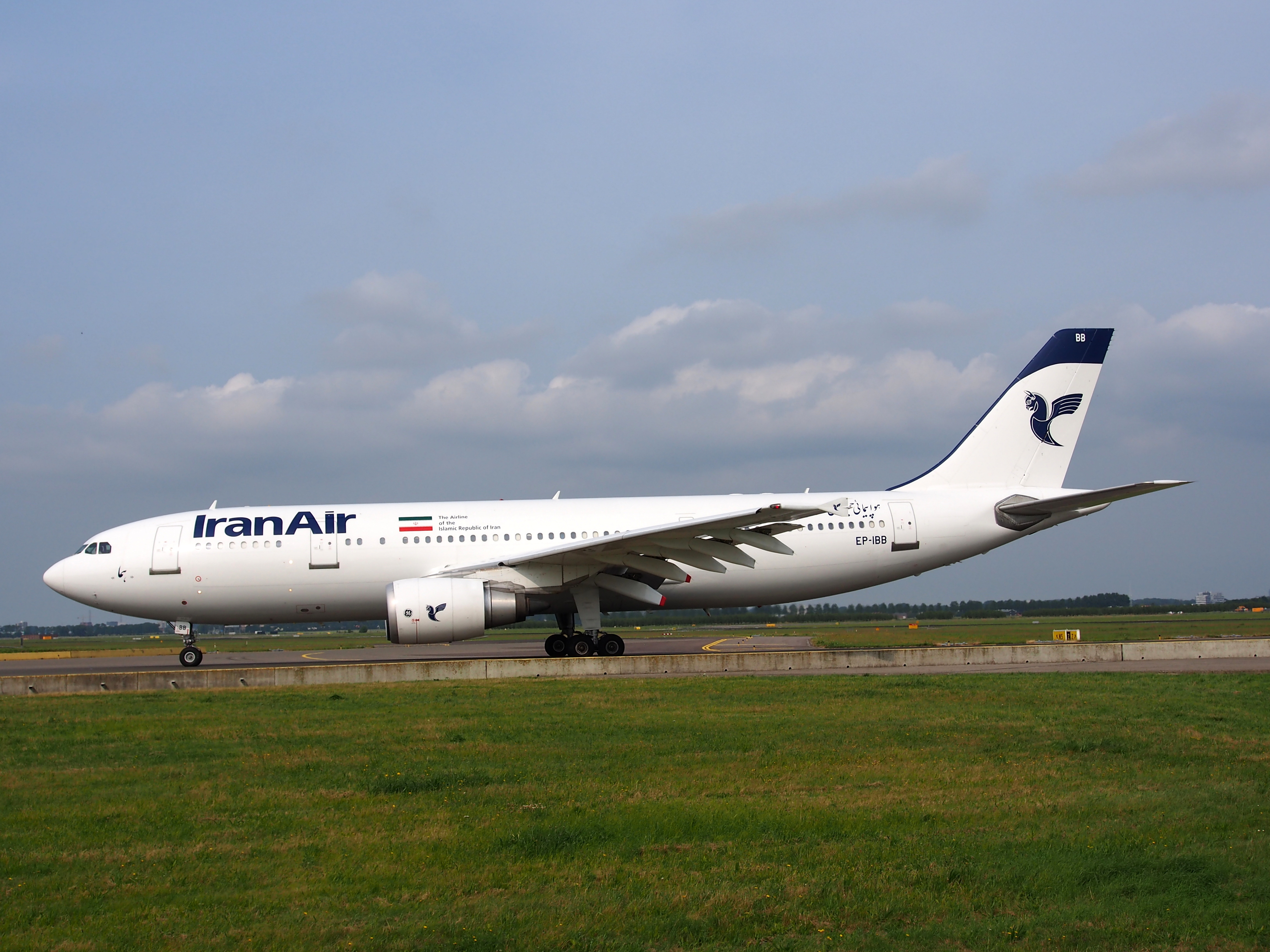 Photographed at Schiphol, Amsterdam airport, (IATA: AMS, ICAO: EHAM), the Netherlands.